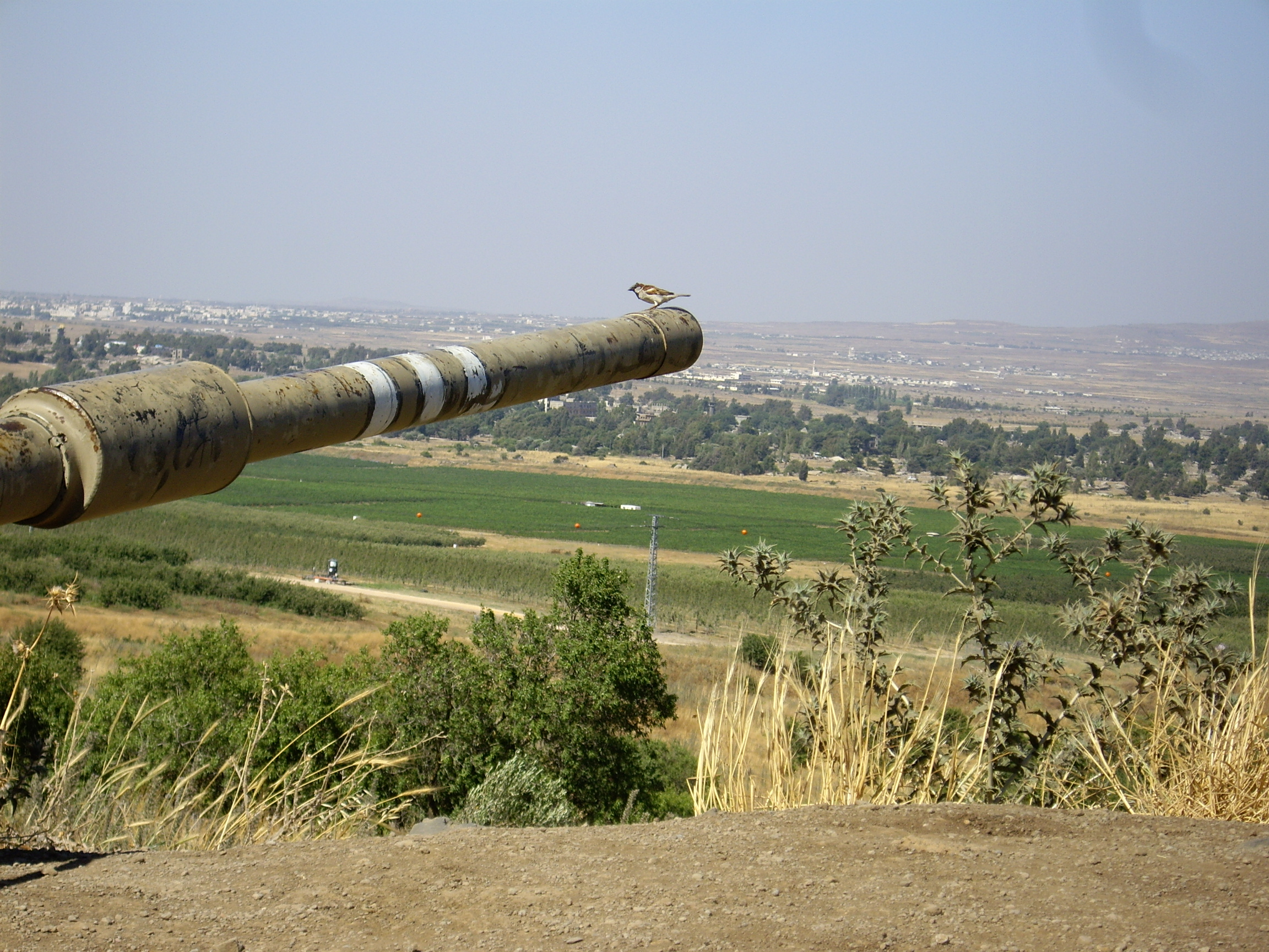 IMGP6313 Golan Heights